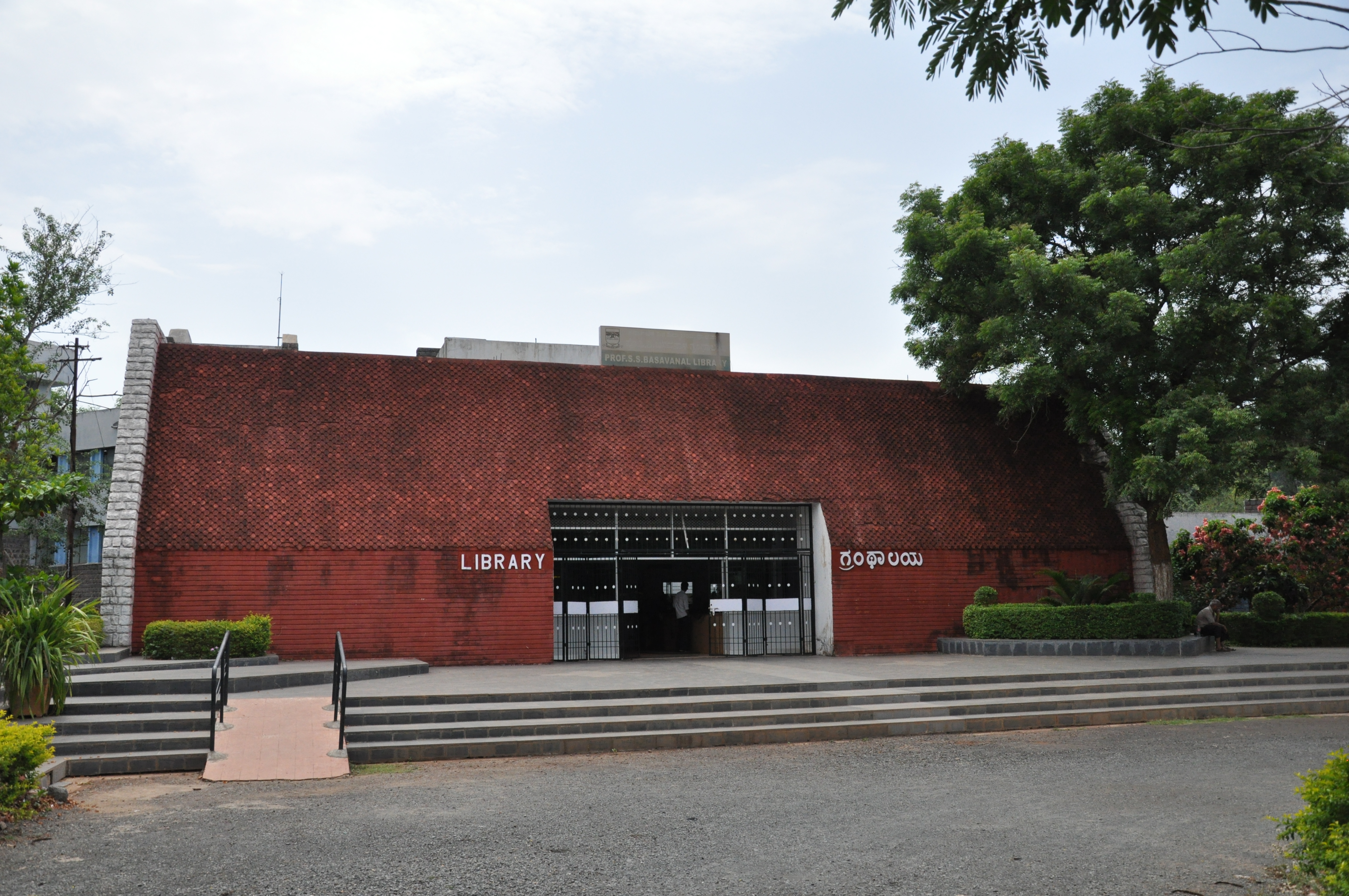 Library building, Karnataka University, Dharwad